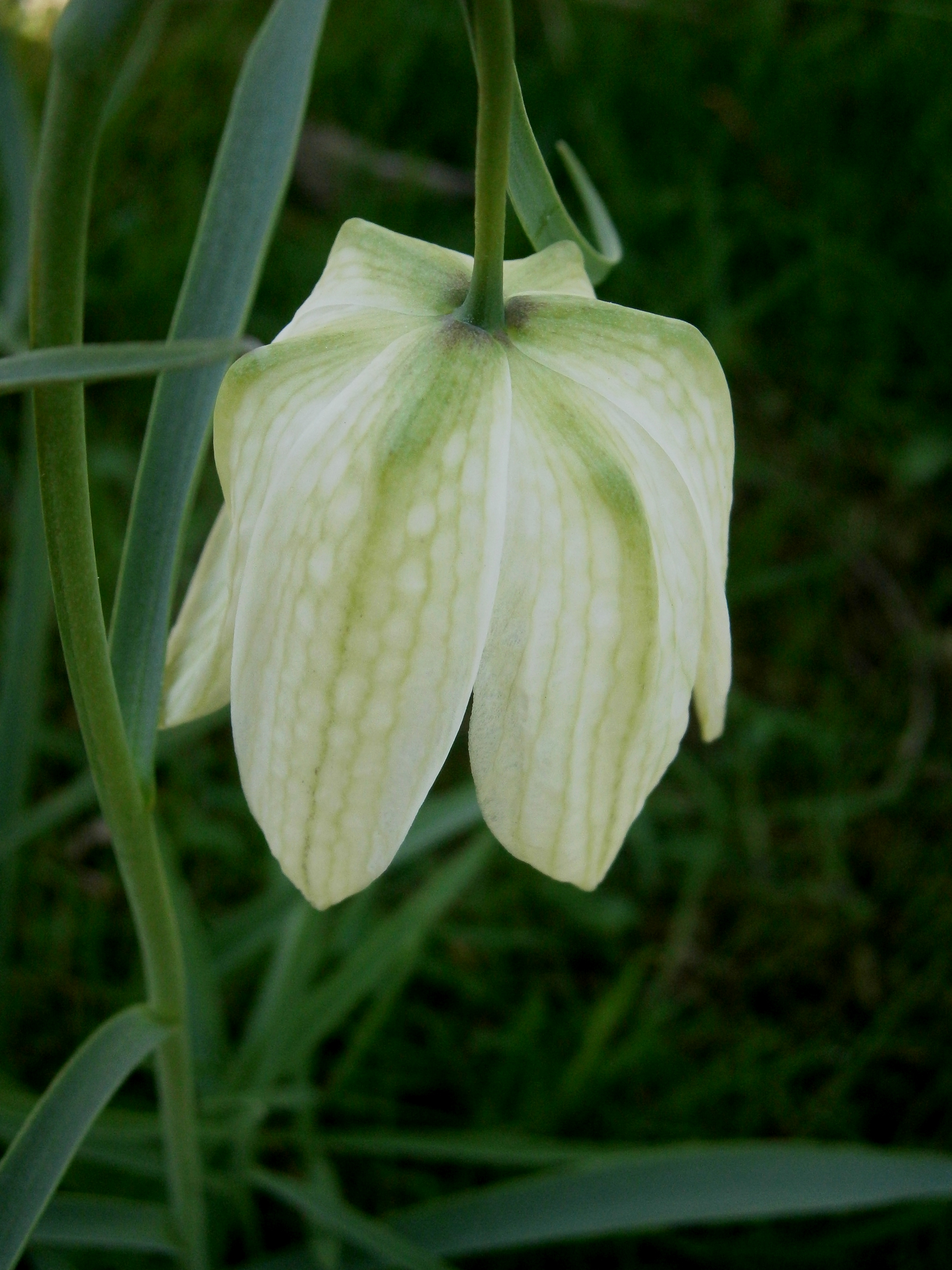 Fritillaria meleagris f. alba